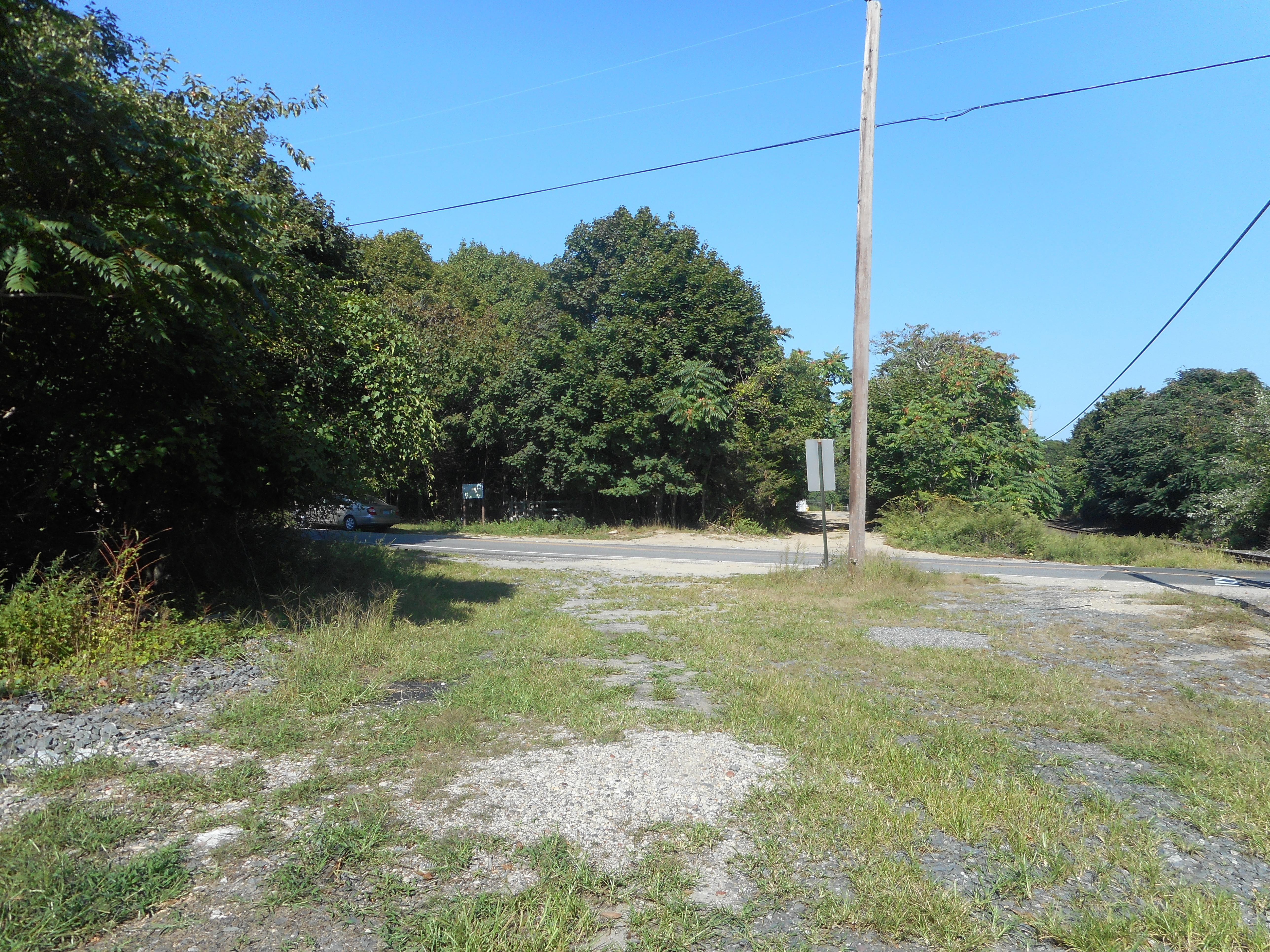 The former Sag Harbor Branch of the Long Island Rail Road, now the Long Pond Greenbelt Trail, west of the former railroad crossing at Lumber Lane, in Bridgehampton, New York. The Montauk Branch crossing is just off to the right of this picture.